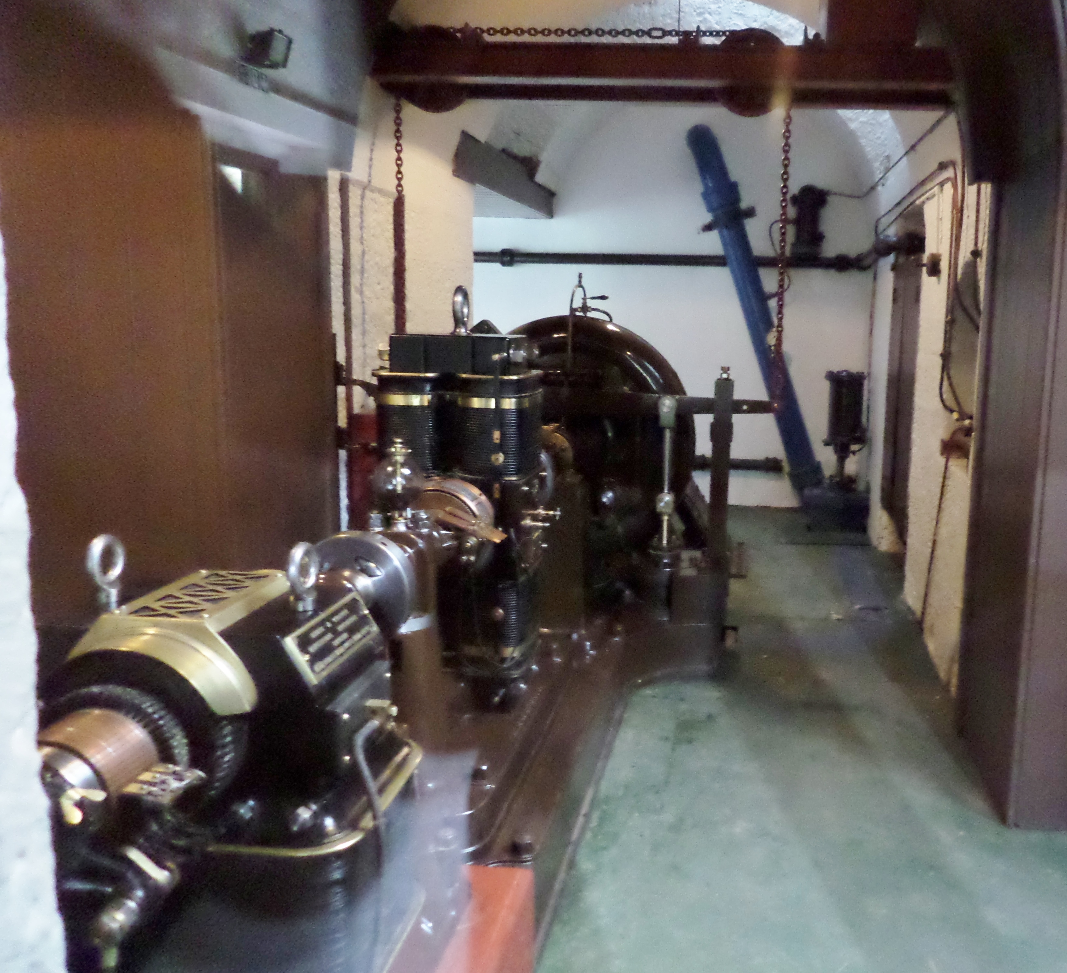 Burnfoot Power House. Generator, turbine, etc, Cragside Estate, Rothbury, England.